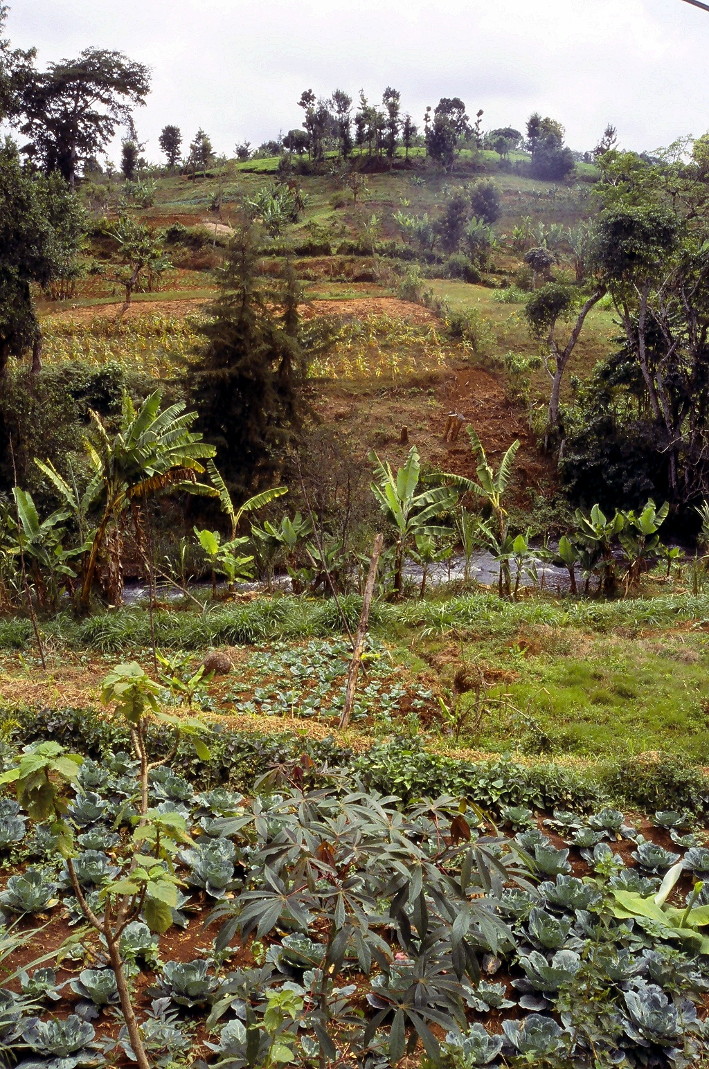 Cultivation on the slopes of Mount Kenya